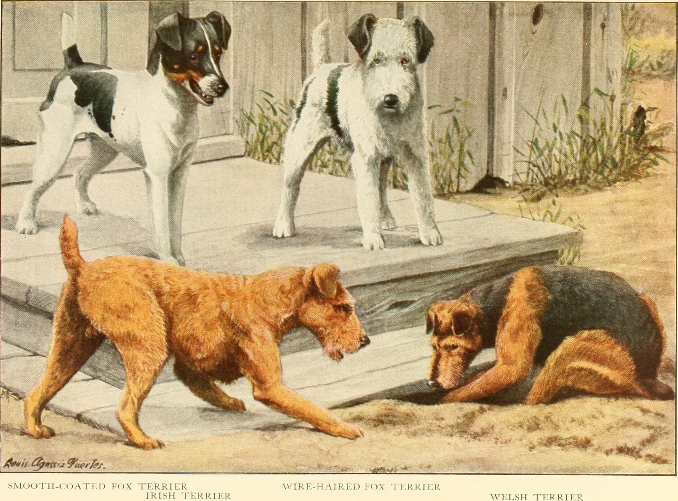 Title: The book of dogs; an intimate study of mankind's best friend Year: 1919 (1910s) Authors: National Geographic Society (U. S. ); Fuertes, Louis Agassiz, 1874-1927; Baynes, Ernest Harold, 1868-1925 Subjects: Dogs Publisher: Washington, D. C. , The National geographic society Text Appearing Before Image: ' Text Appearing After Image: 63